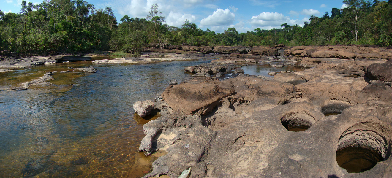 Tad Leuk, Phou Khao Khouay National Protected Area, Bolikhamsai Province, Laos.